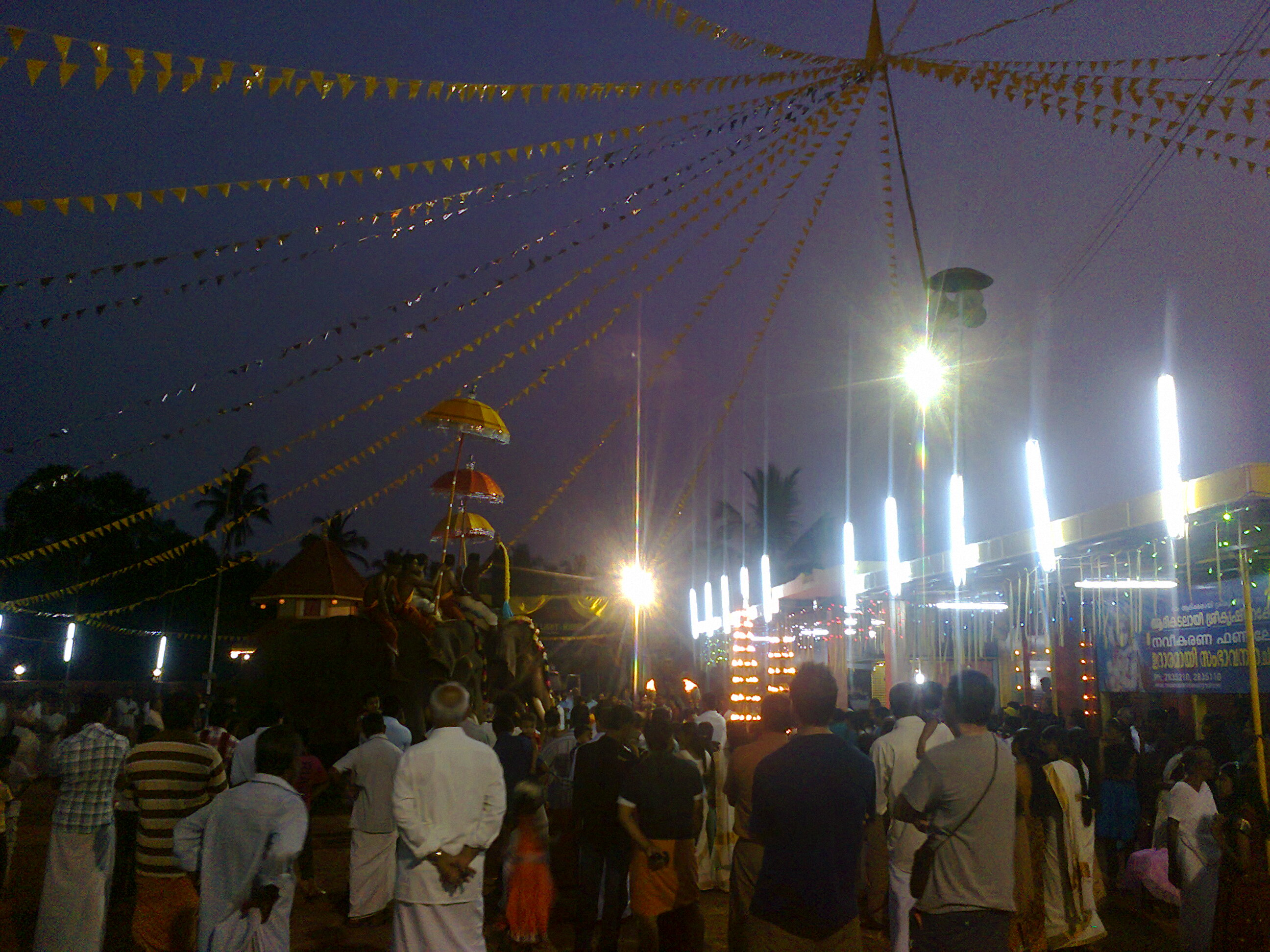 ആദികടലായി ശ്രീകൃഷ്ണ ക്ഷേത്രോത്സവം